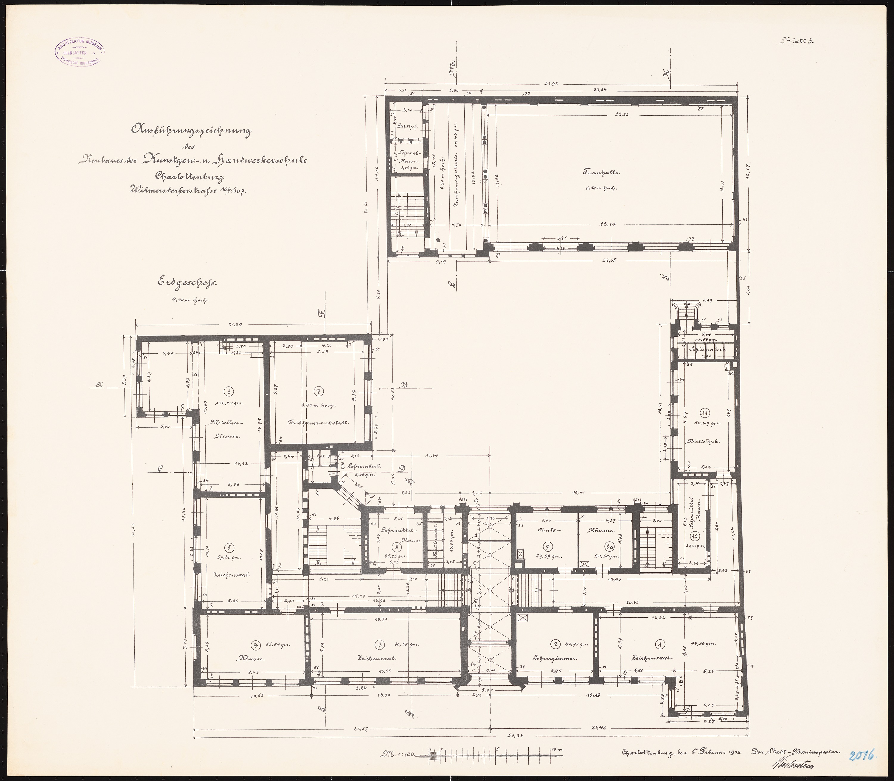 Floor plan of the Kunstgewerbe- und Handwerkerschule Charlottenburg by Paul Bratring (1840–1913)